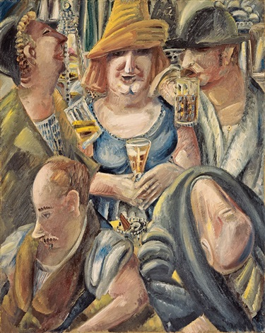 Drunken Company, oil on canvas, 125 x 100 cm. (49.2 x 39.4 in.)